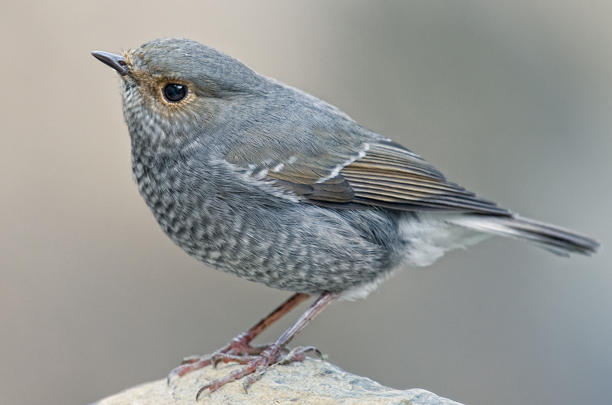 A female Plumbeous Water-redstart in Hong Kong. Equipment : - ISO 400, F7.1, 1/160sec, EV+2/3 - Nikon D3 - Nikkor AFS 500mm F.4 VRII - TC-14EII 中名：紅尾水鴝